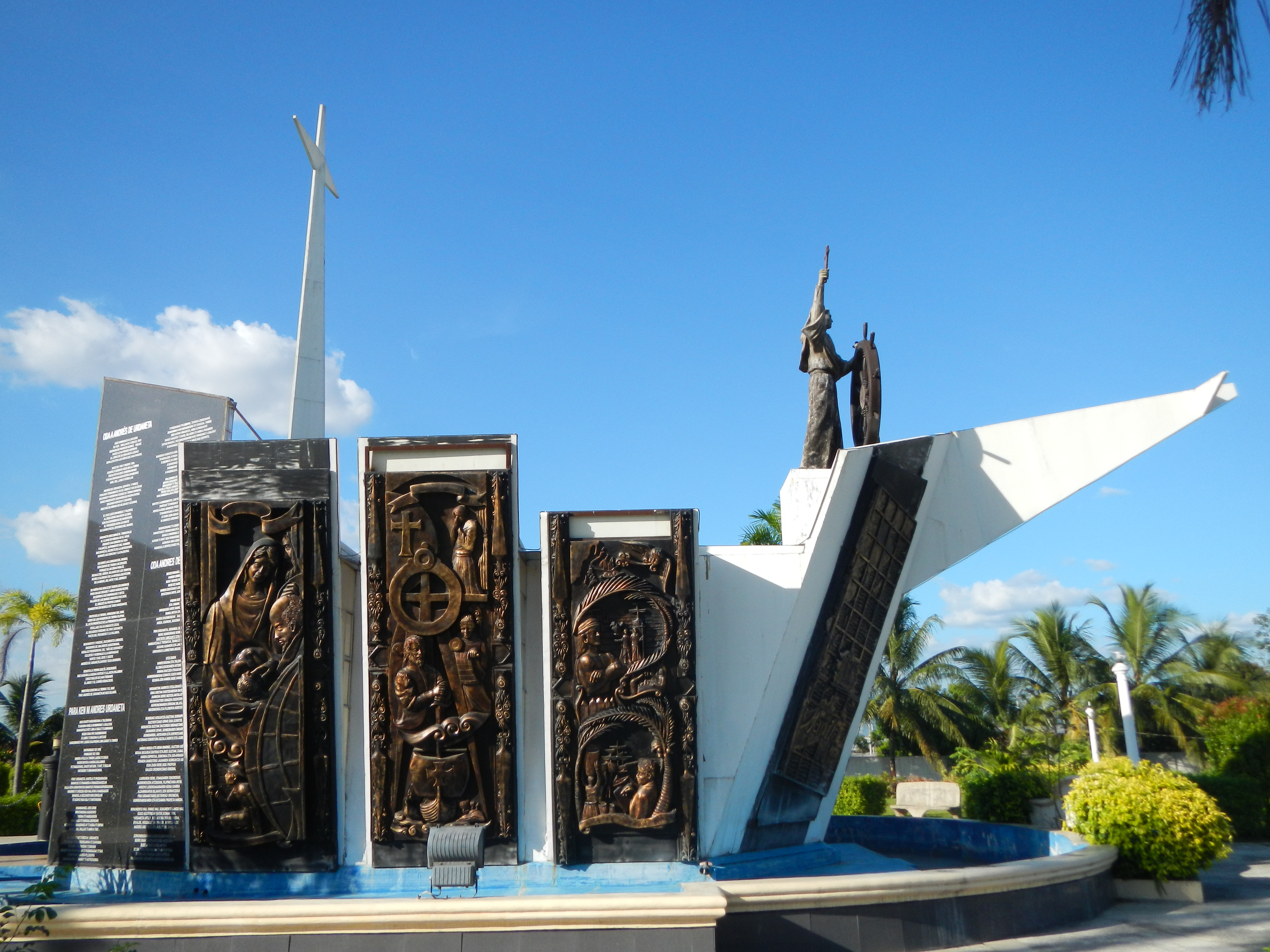 Urdaneta, Pangasinan[1]